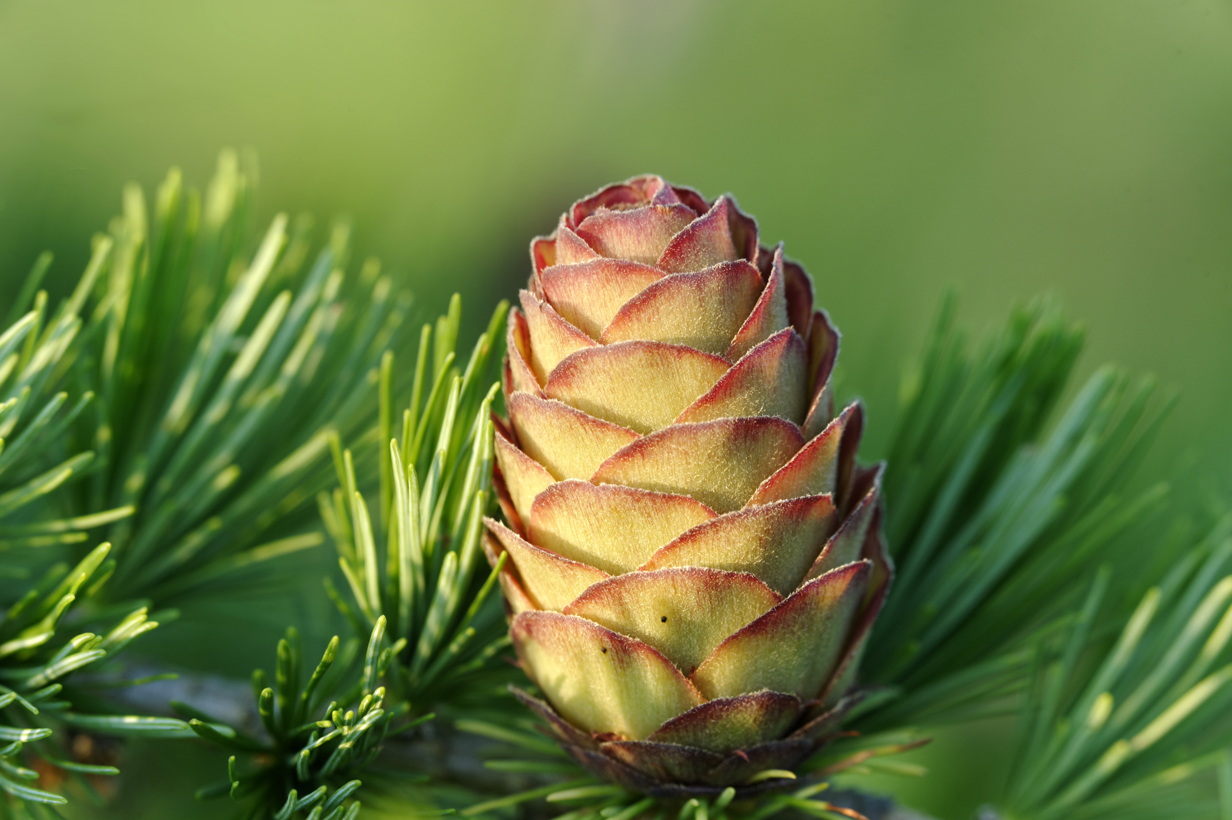 Female cone of Dunkeld larch (Larix × marschlinsii). Hybrid of Larix decidua and Larix kaempferi.